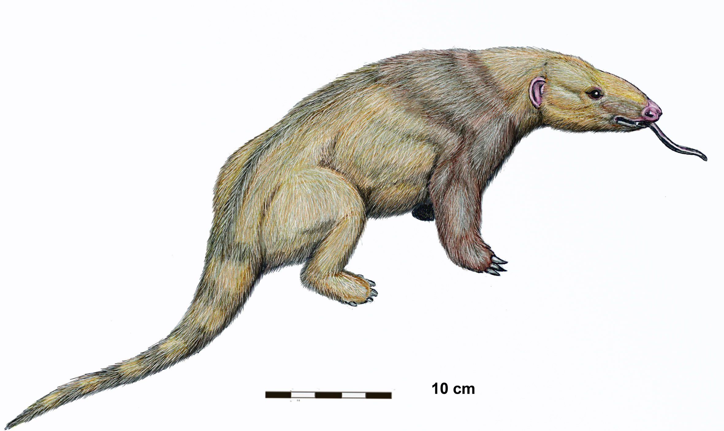 Metacheiromys, palaeanodont mammal from Eocene of North America.